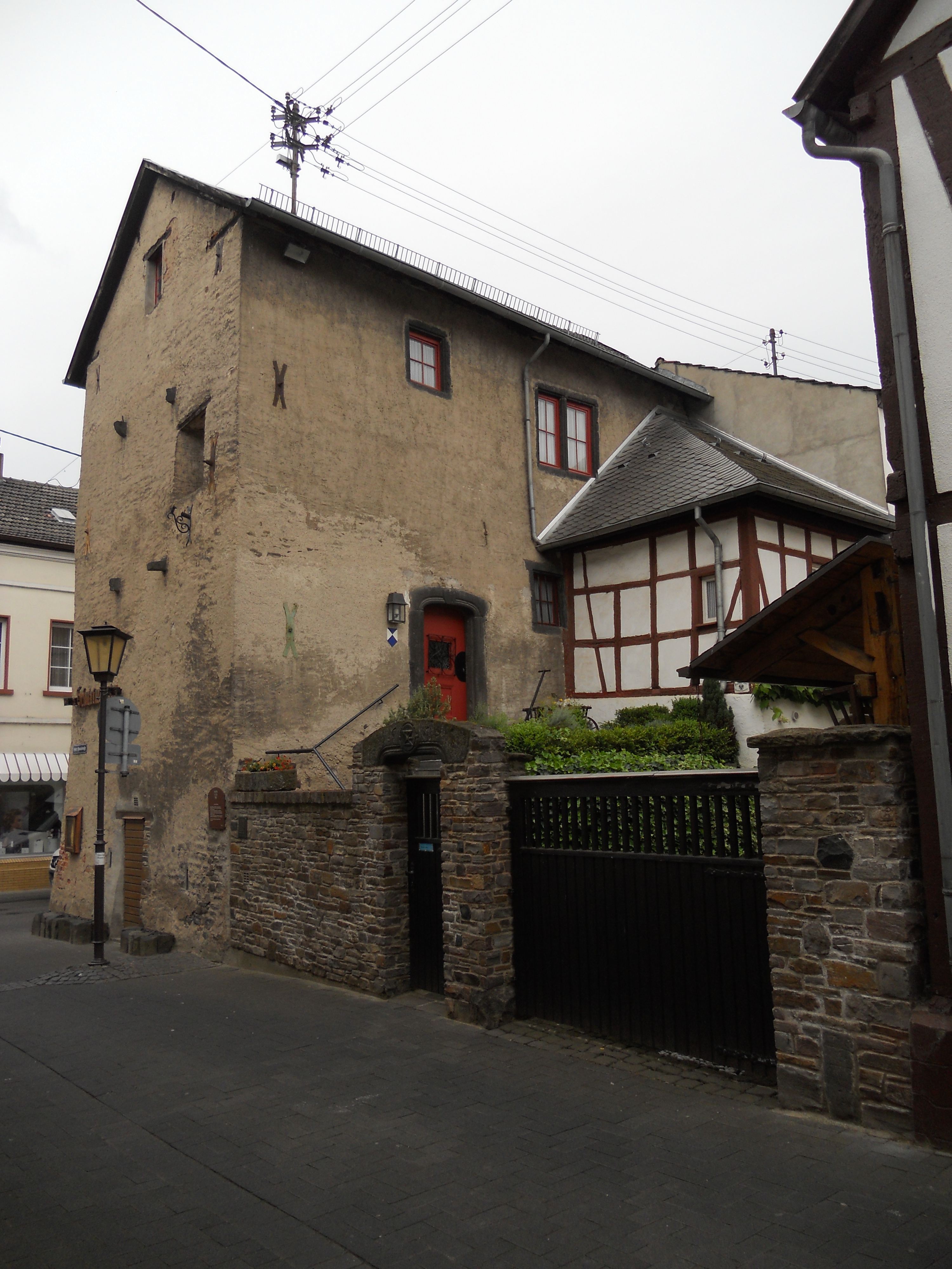 Backside of the "Hohe Haus", a medieval defensive and living tower from the 15th century.